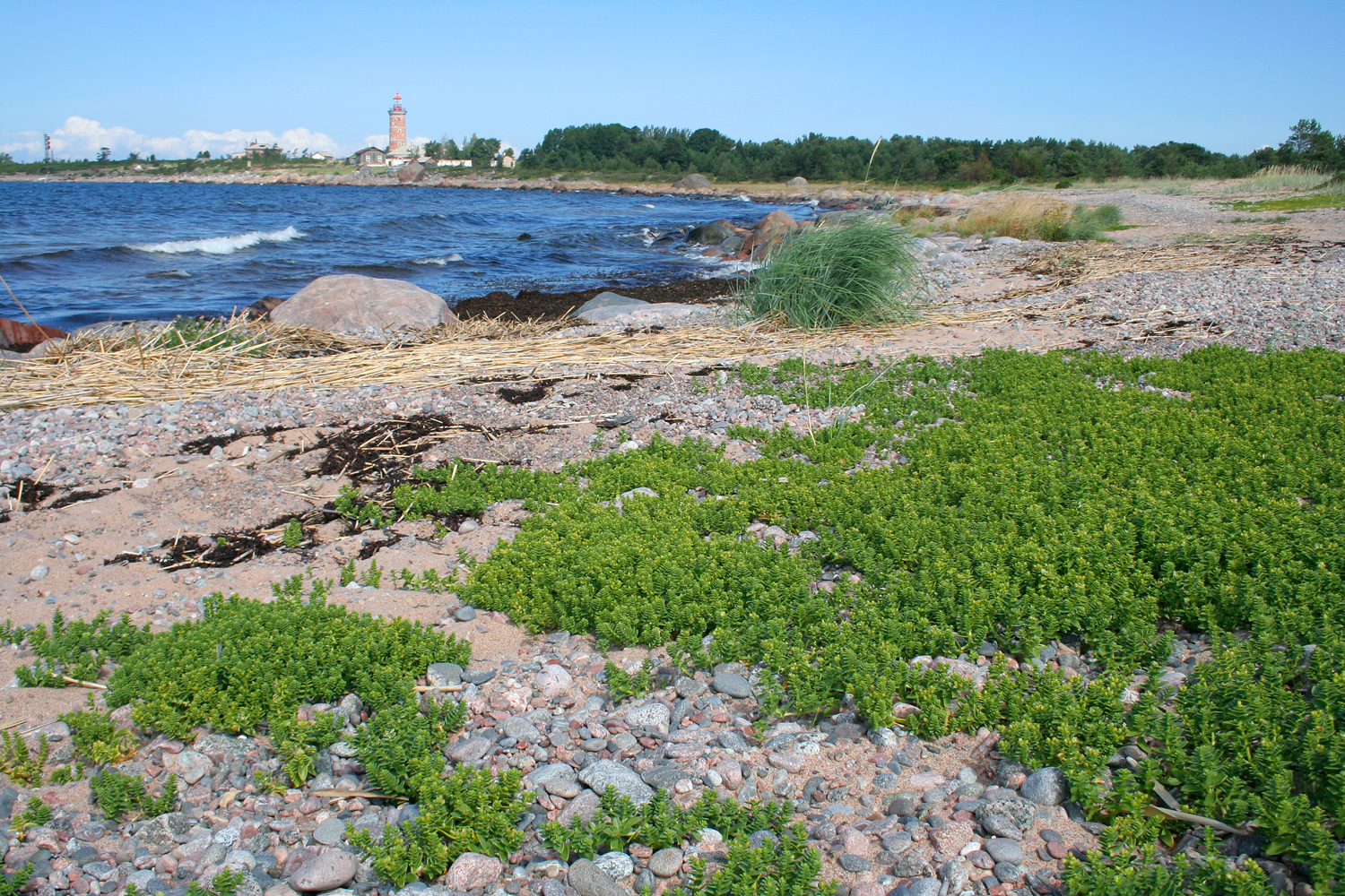 Landscape of Mohni island and lighthouse.